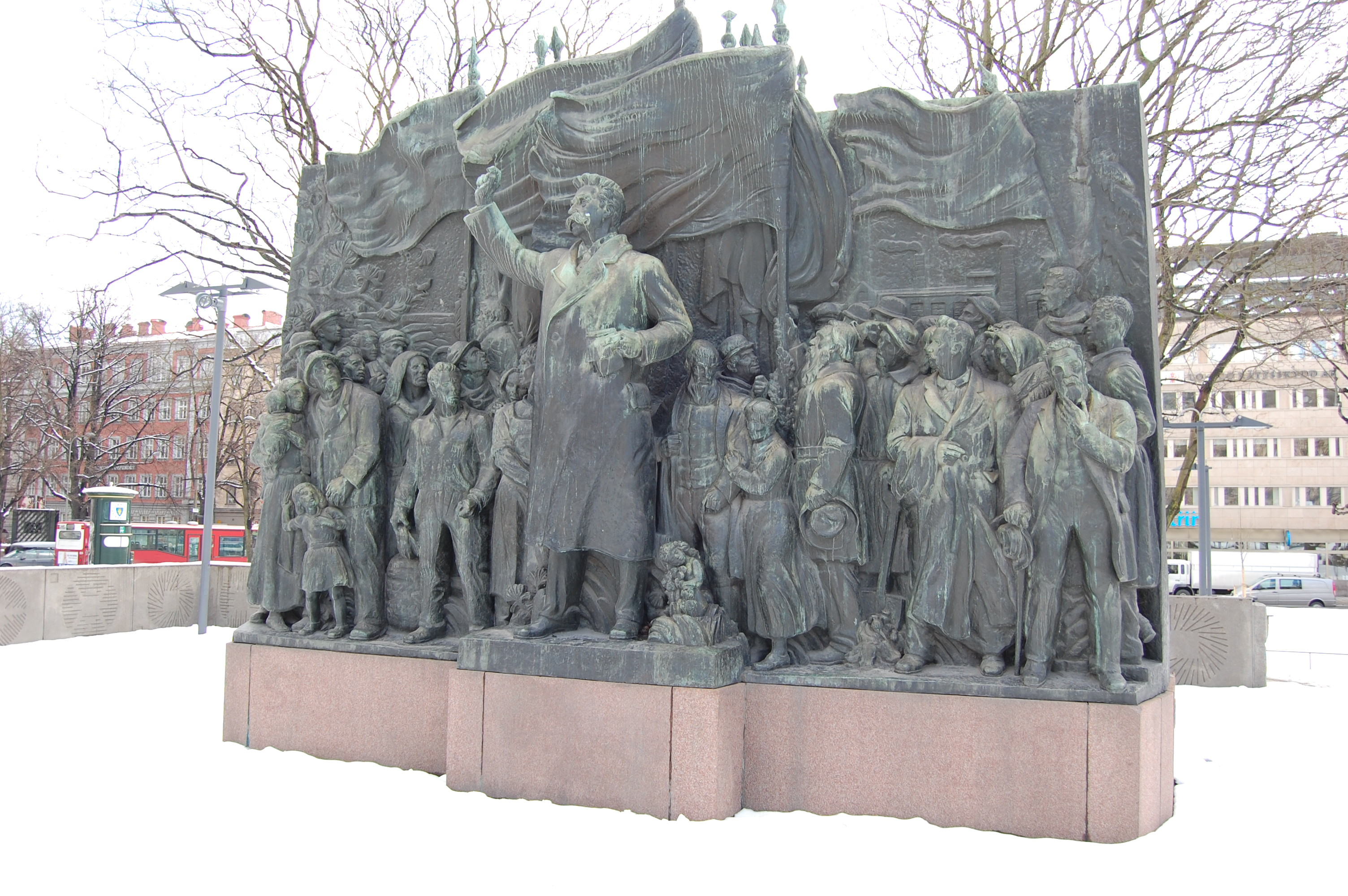 Statue representing Hjalmar Branting on Norra Bantorget in Stockholm